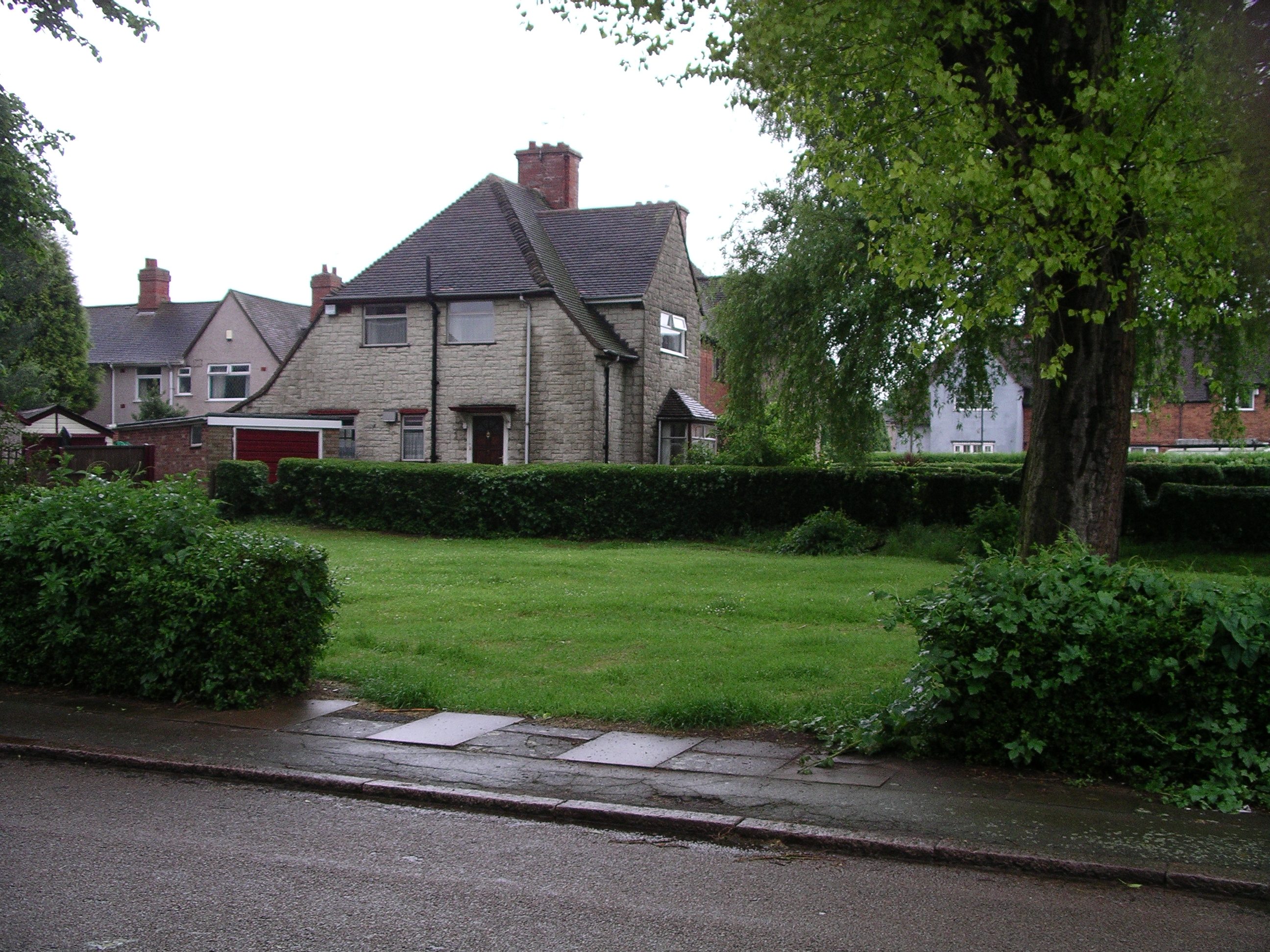 The spinney, a preserved garden, off Poultney Road, Coventry, England. The house in the background, 2 Poultney Road, was the first home of Philip Larkin (1922-1985), the English poet. His family lived in the house, at the time a council house, from 1919 until 1925. The area was known as Radford Garden Village. Sydney and Eva Larkin, together with Philip's older sister, Kitty, were the house's first occupants. Sydney worked at the time for the local council. See [1] and Andrew Motion's Philip Larkin: A Writer's Life, p. 30.